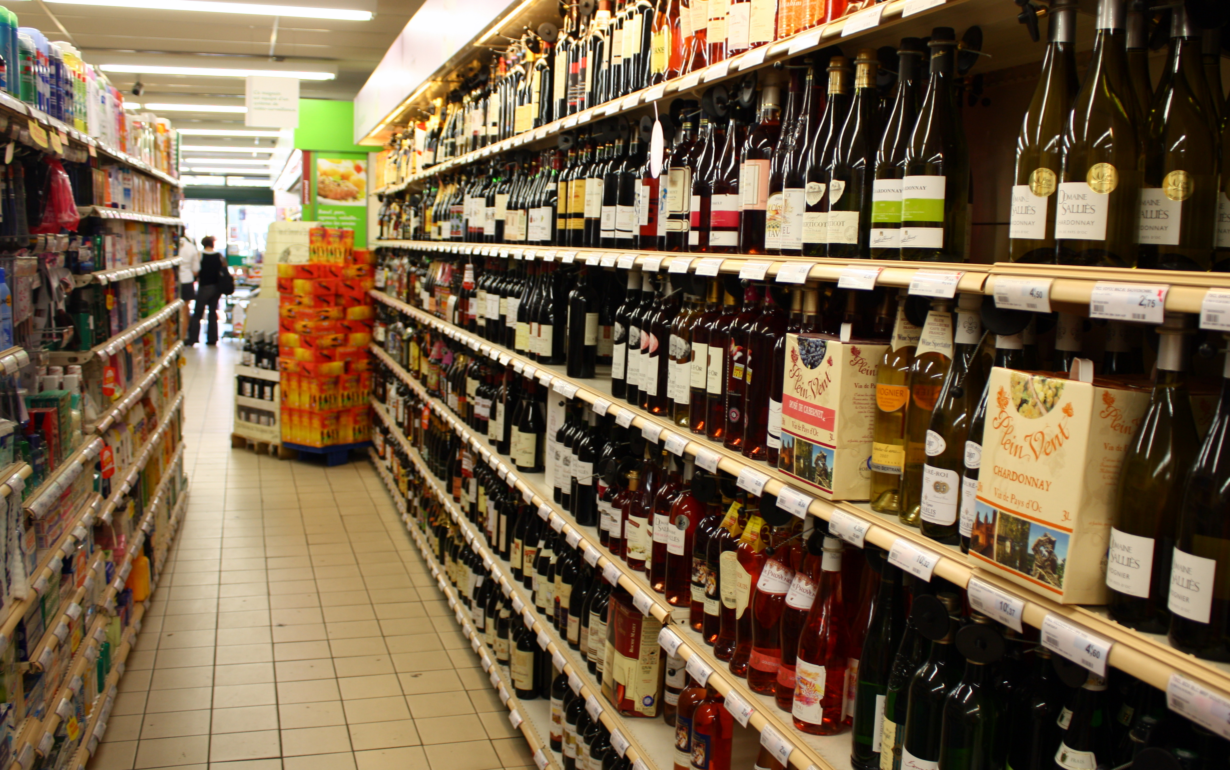 Wine aisle at MonoPrix, Carcassonne, France.